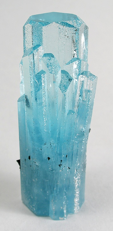 Beryl Locality: Shengus (Shingus), Haramosh Mts., Skardu District, Baltistan, Northern Areas, Pakistan (Locality at ) Size: small cabinet, 7.3 x 2.7 x 2.6 cm Aquamarine This aqua cluster GLOWS with sparkling lustre thrown off from a secondary coating of very minute aquamarine druses crystallized on top of some faces of the original growth. It is complete all around and free of damage. The terminations are glassy on top. The color is intense. The gemminess is near total transparency at the top, grading to translucency at the base. It has a matrixy look to it because of the clustering of the attached crystals. For the size, this is one of my favorite aquas I have ever seen, simple as that.